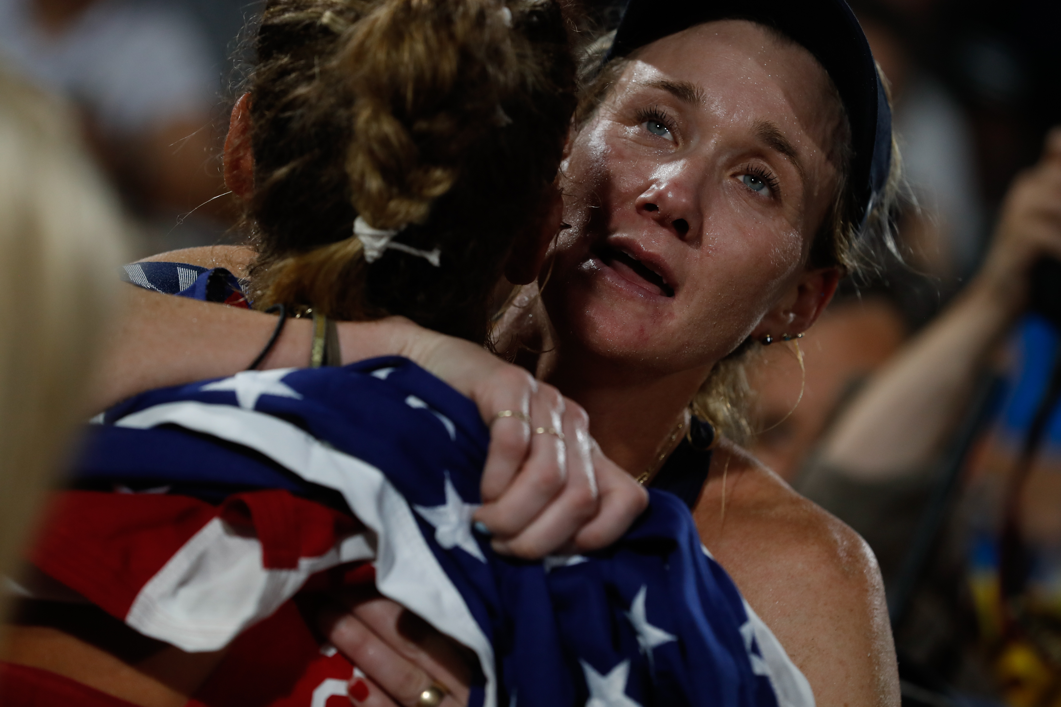 Rio de Janeiro - Dupla de vôlei de praia doBrasil Larissa e Talita perdem a disputa de bronze para norte-americanas Walsh e Ross nos Jogos Olímpicos Rio 2016, em Copacabana ( Fernando Frazão/Agência Brasil)